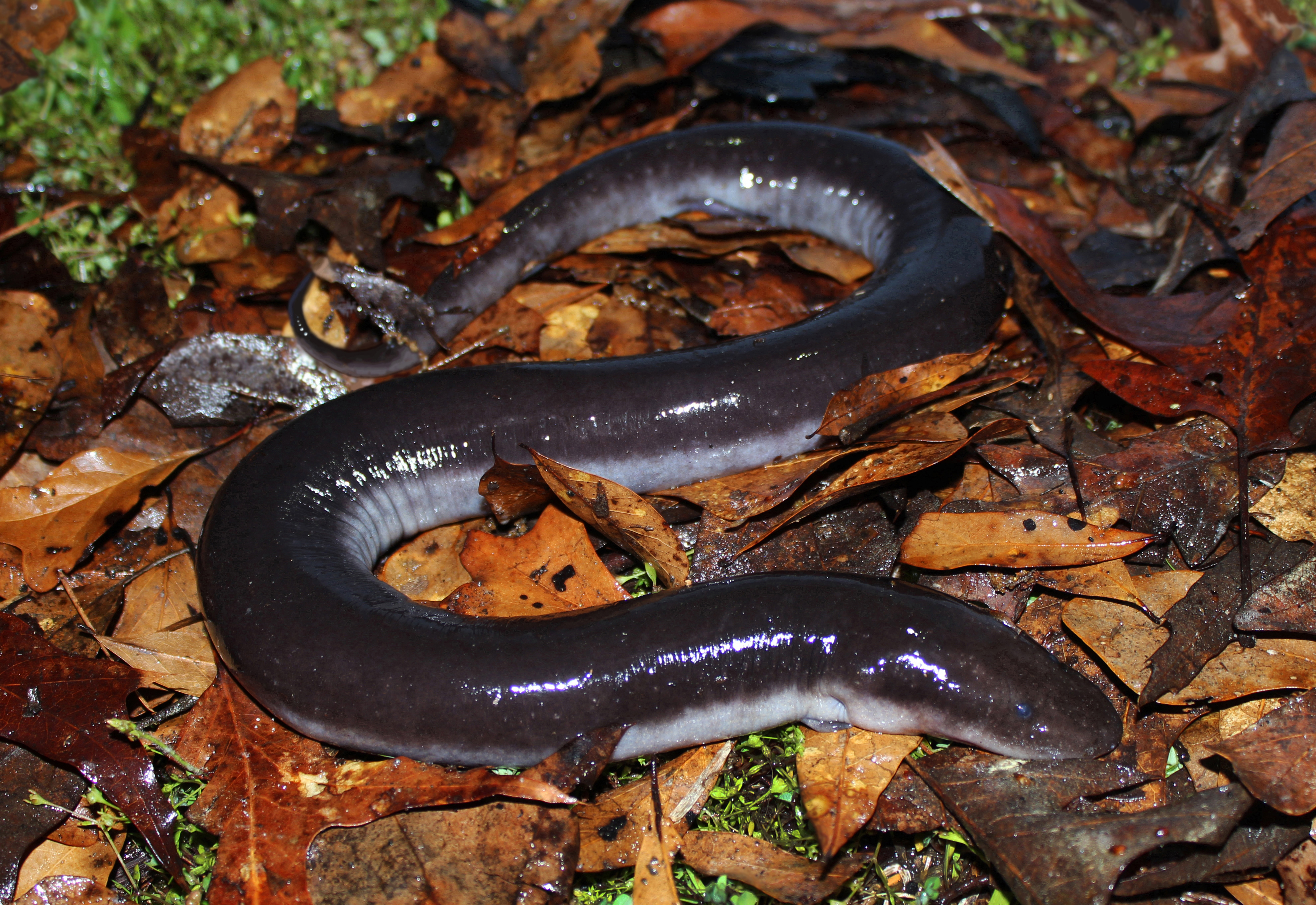 April 18th, 2015 High of 80 degrees Fahrenheit Pulaski County, Arkansas